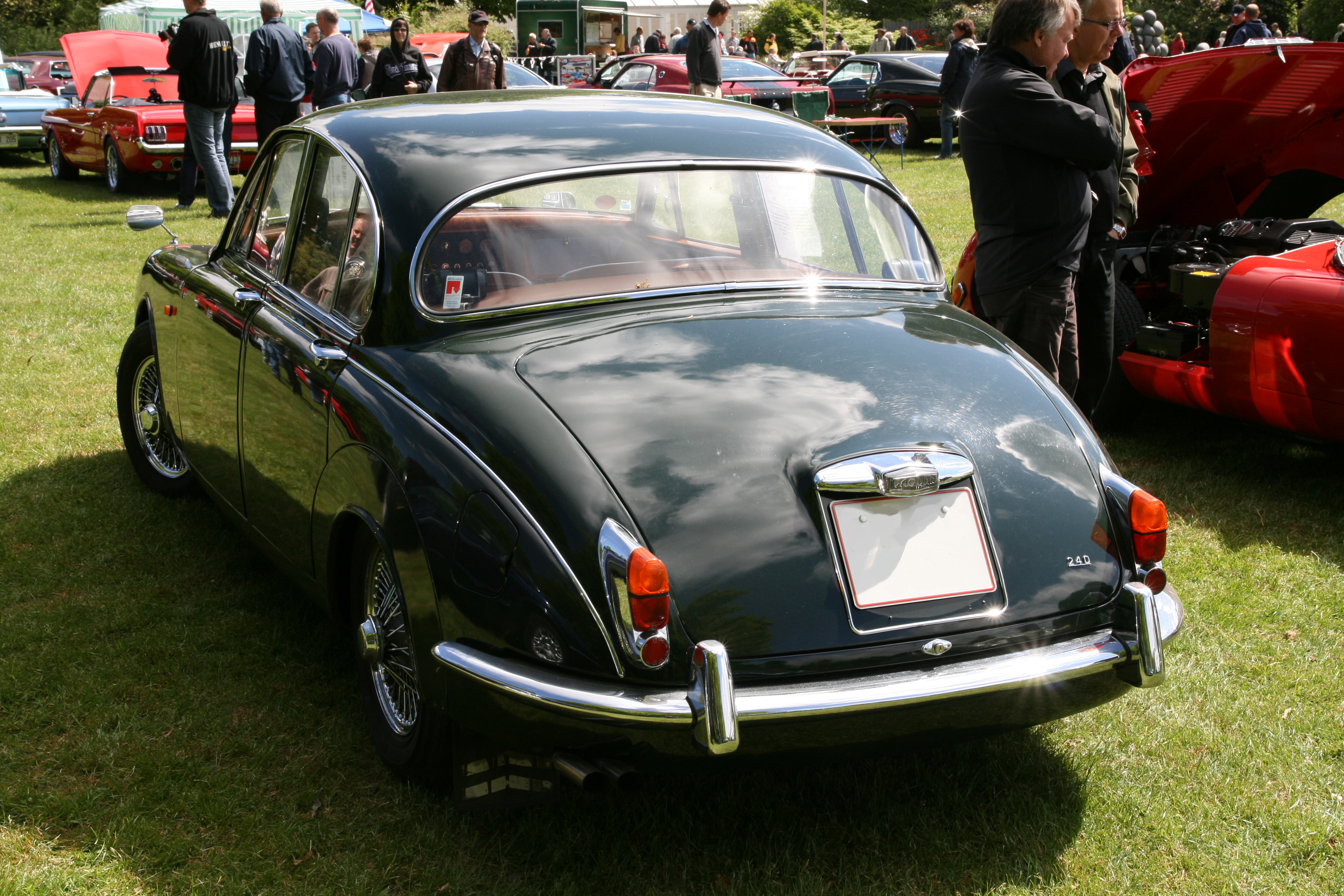 Rear view of a Danish 1968 Jaguar 240 (Mark II) parked at the Sofiero Classic car show at Sofiero castle in Helsingborg, Sweden.